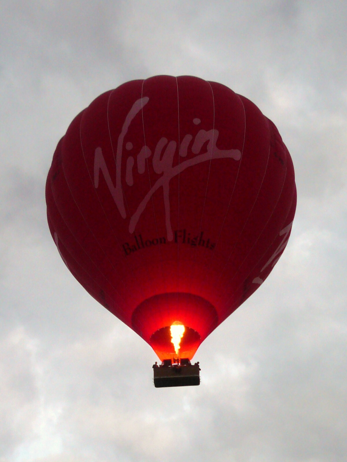 I own copyright.